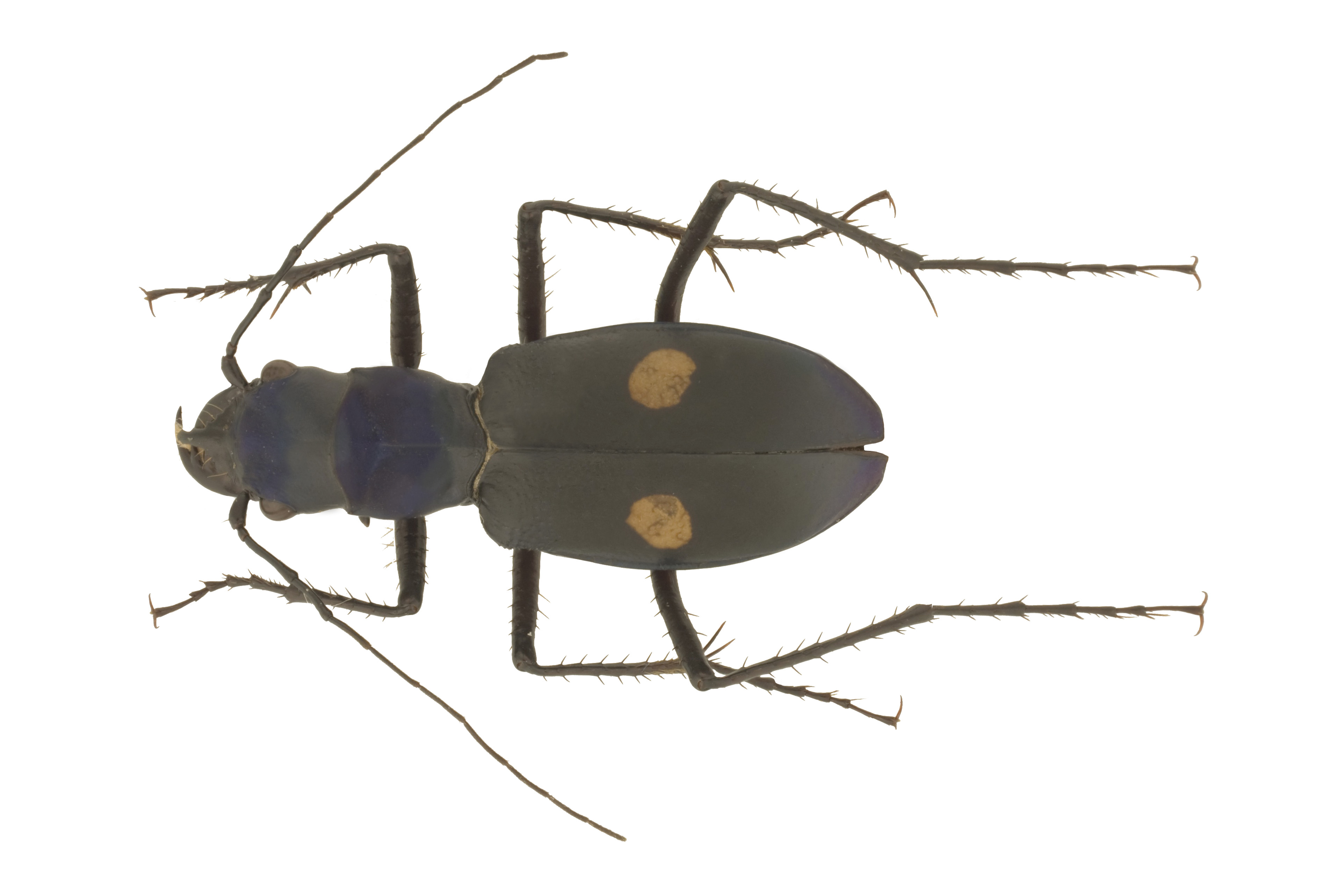 Pseudoxycheila tarsalis